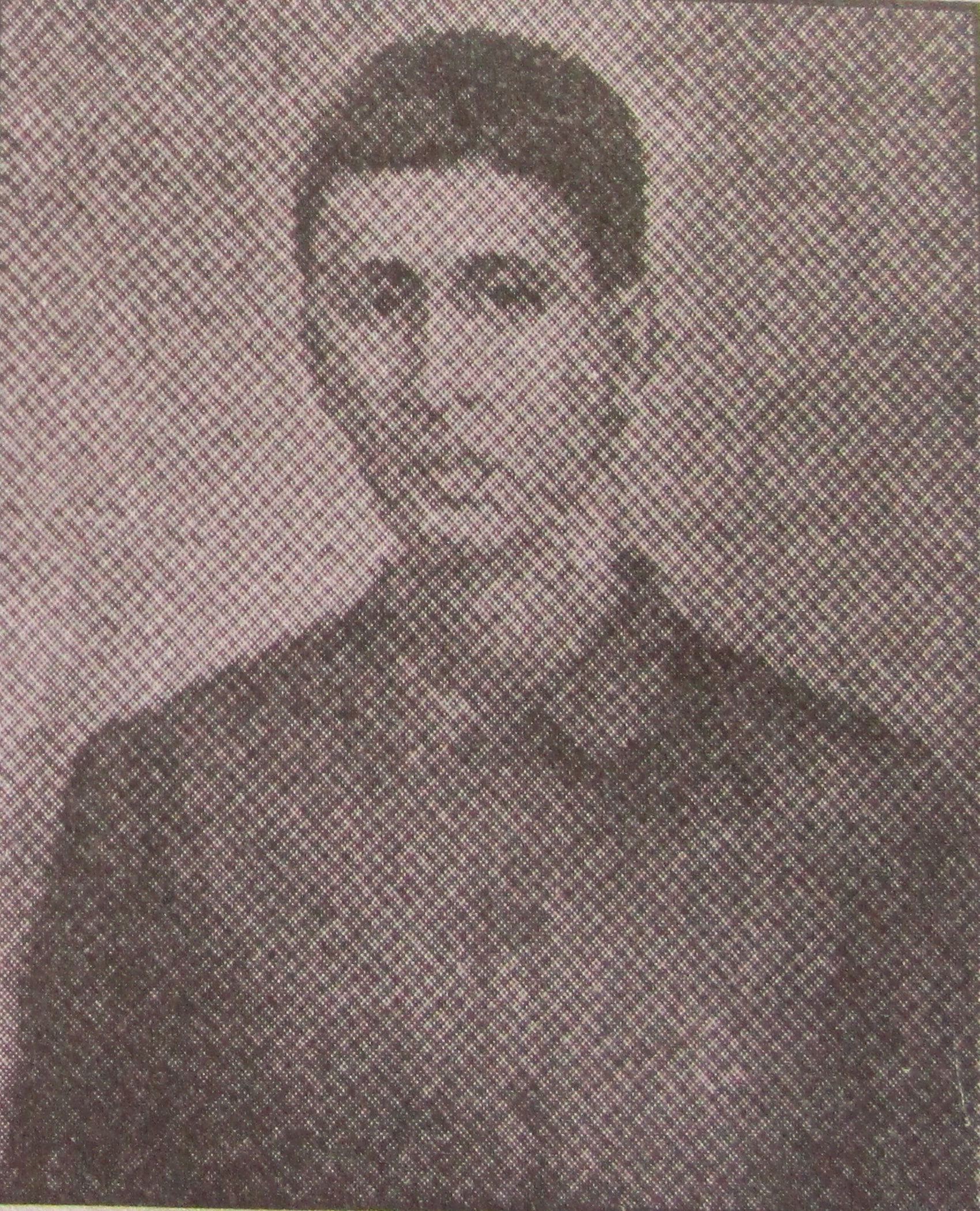 Nirendranath Dashgupta